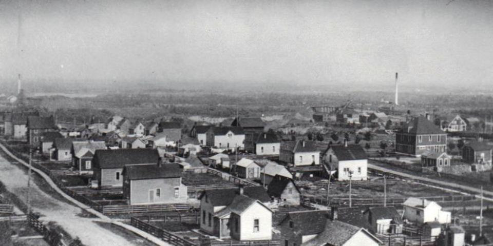 Elcor, Minnesota